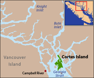 This is a locator map of Quadra Island. I, Pfly, made it with ArcGIS, Adobe Illustrator, and Adobe Photoshop. The coastline data is from the Digital Chart of the World.